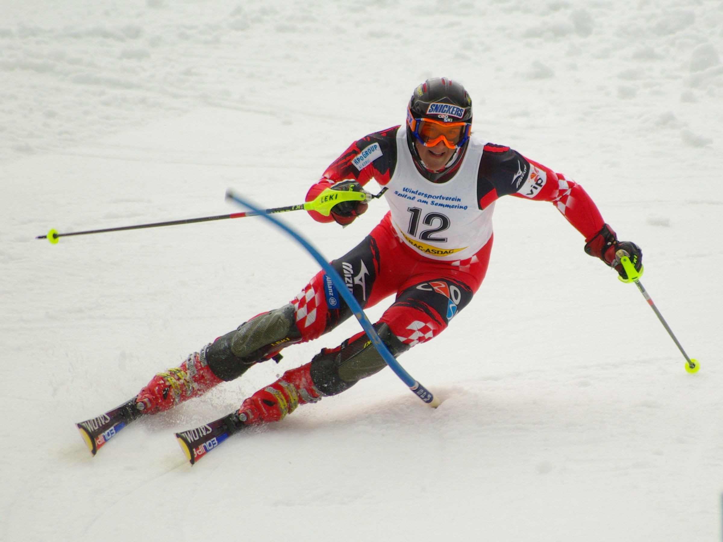 Croatian alpine skier Dalibor Šamšal during the slalom run of the FIS super combined in Spital am Semmering, Austria on 11 March 2008.